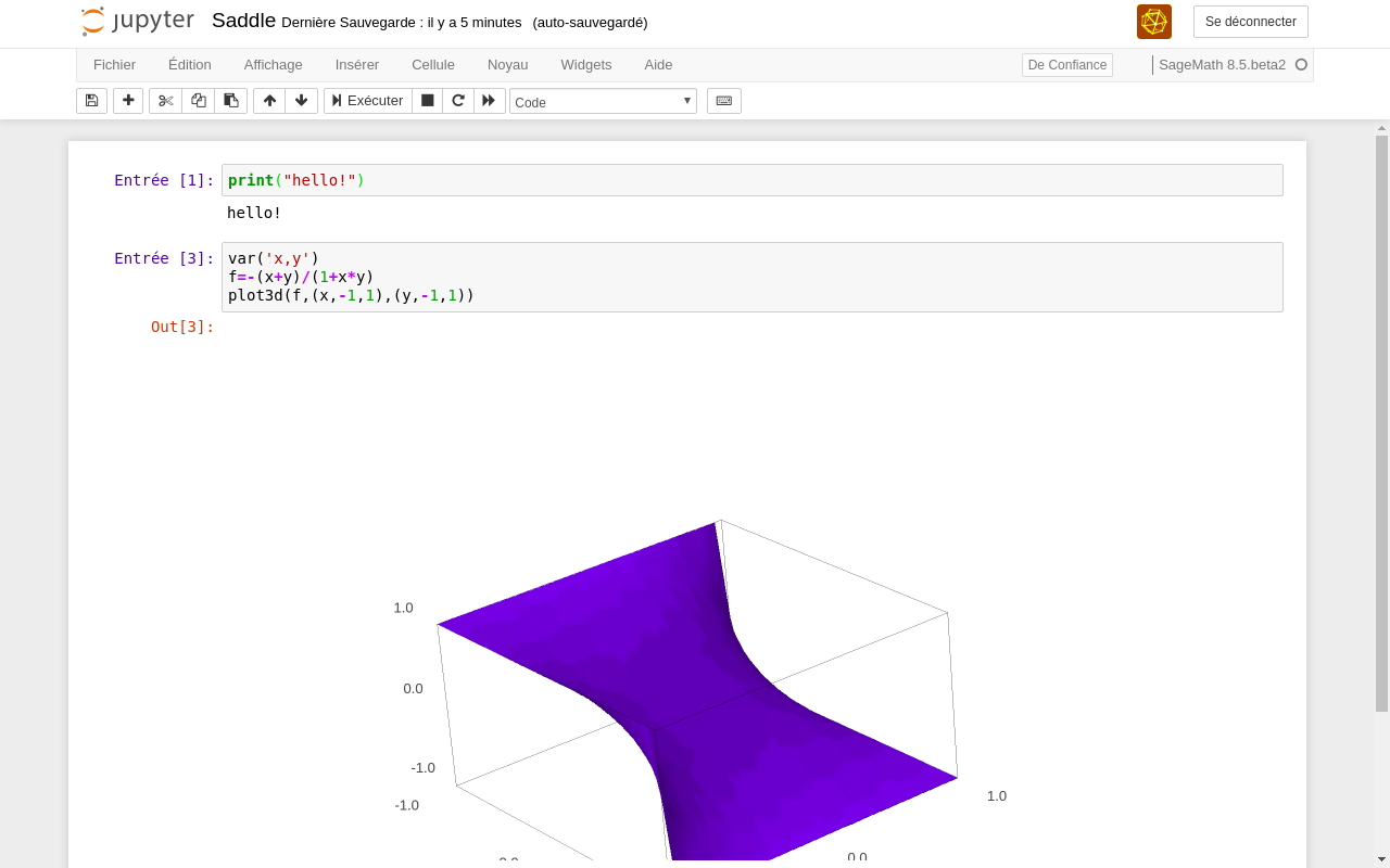 one screenshot of sagemath running inside a jupyter notebook